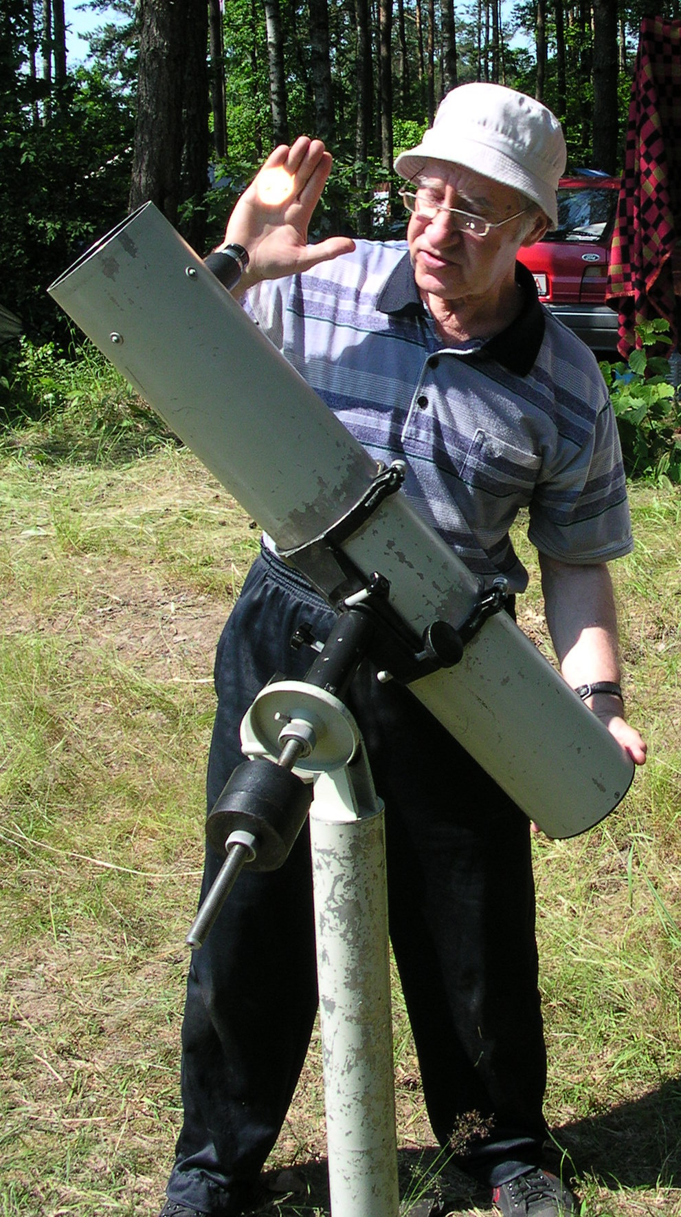 V. Golubev